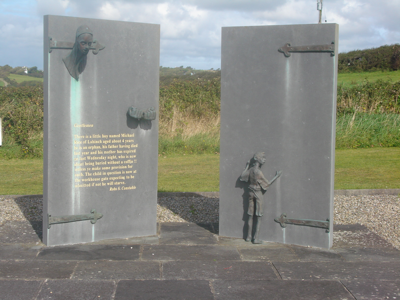 Monument "An Gorta Mor" on the road between Ennistymon to Lahinch in County Clare. Remembering the Great Famine in Ireland. Located close to the former Workhouse.